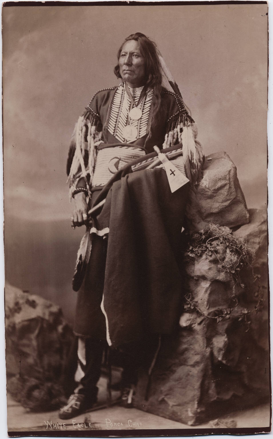 "White Eagle, Ponca chief," black and white photographic portrait by the American photographer John K. Hillers. Photograph taken at Washington, D.C., and published by Charles M. Bell. 25.2 cm x 41.4 cm. Yale Collection of Western Americana, Beinecke Rare Book and Manuscript Library, Yale University, New Haven, Connecticut.